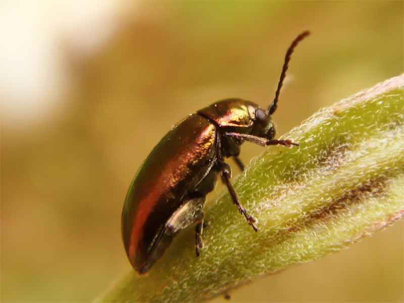 Altica iberica in Ansião, Leiria, Portugal